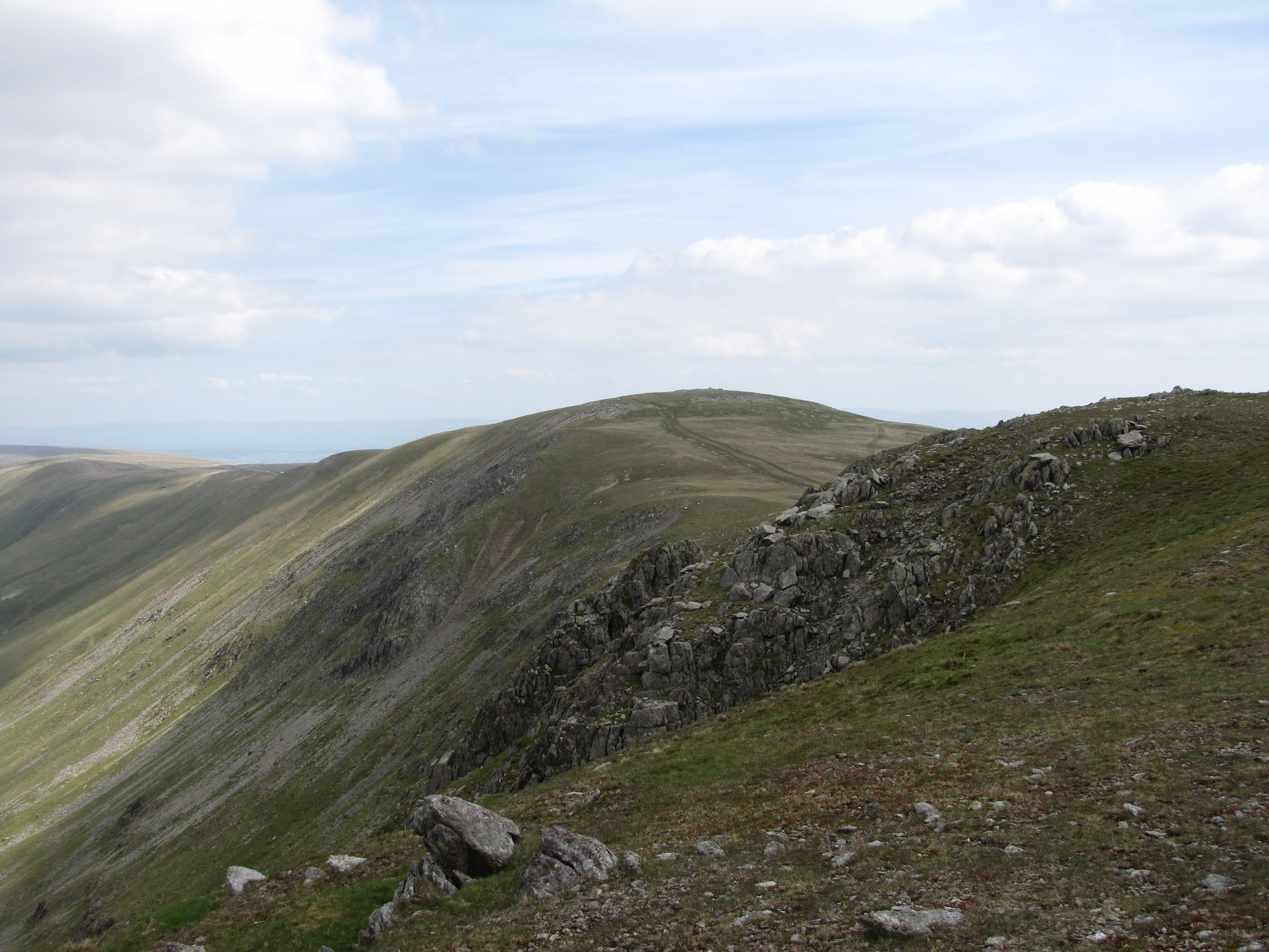 High Raise seen from Rampsgill Head in the Englishe Lake District.